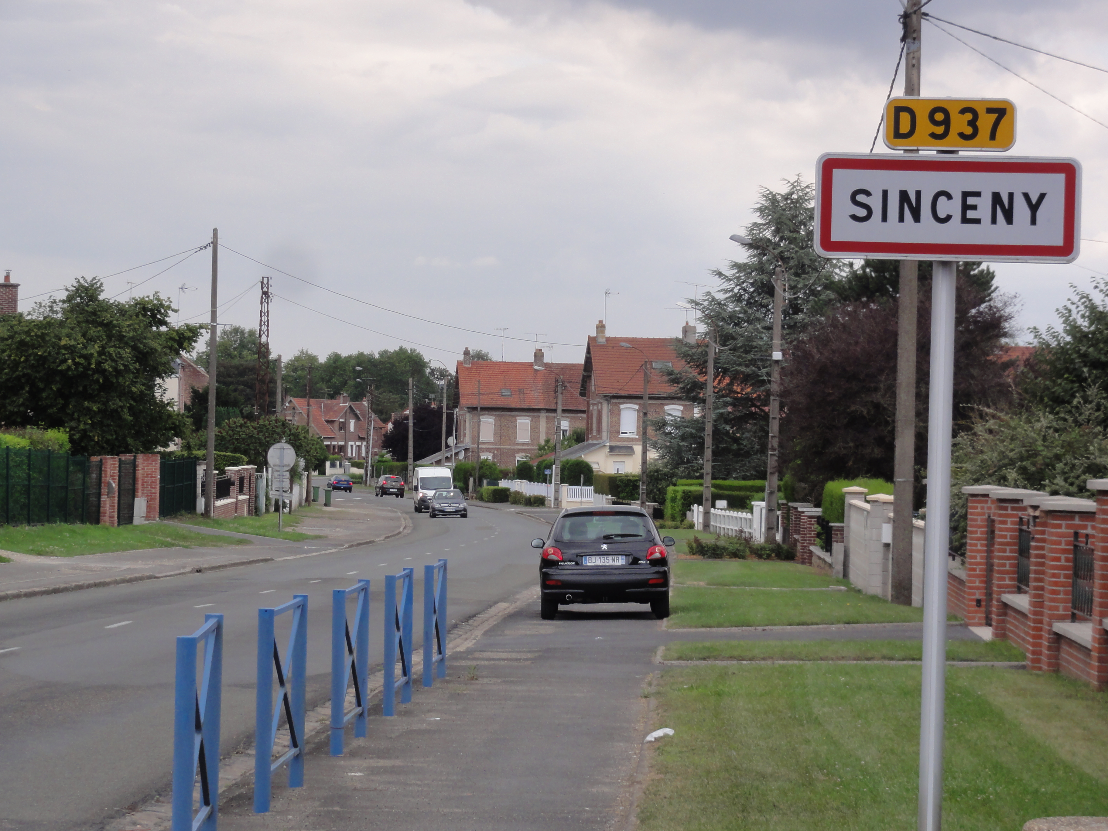 Sinceny (Aisne) city limit sign